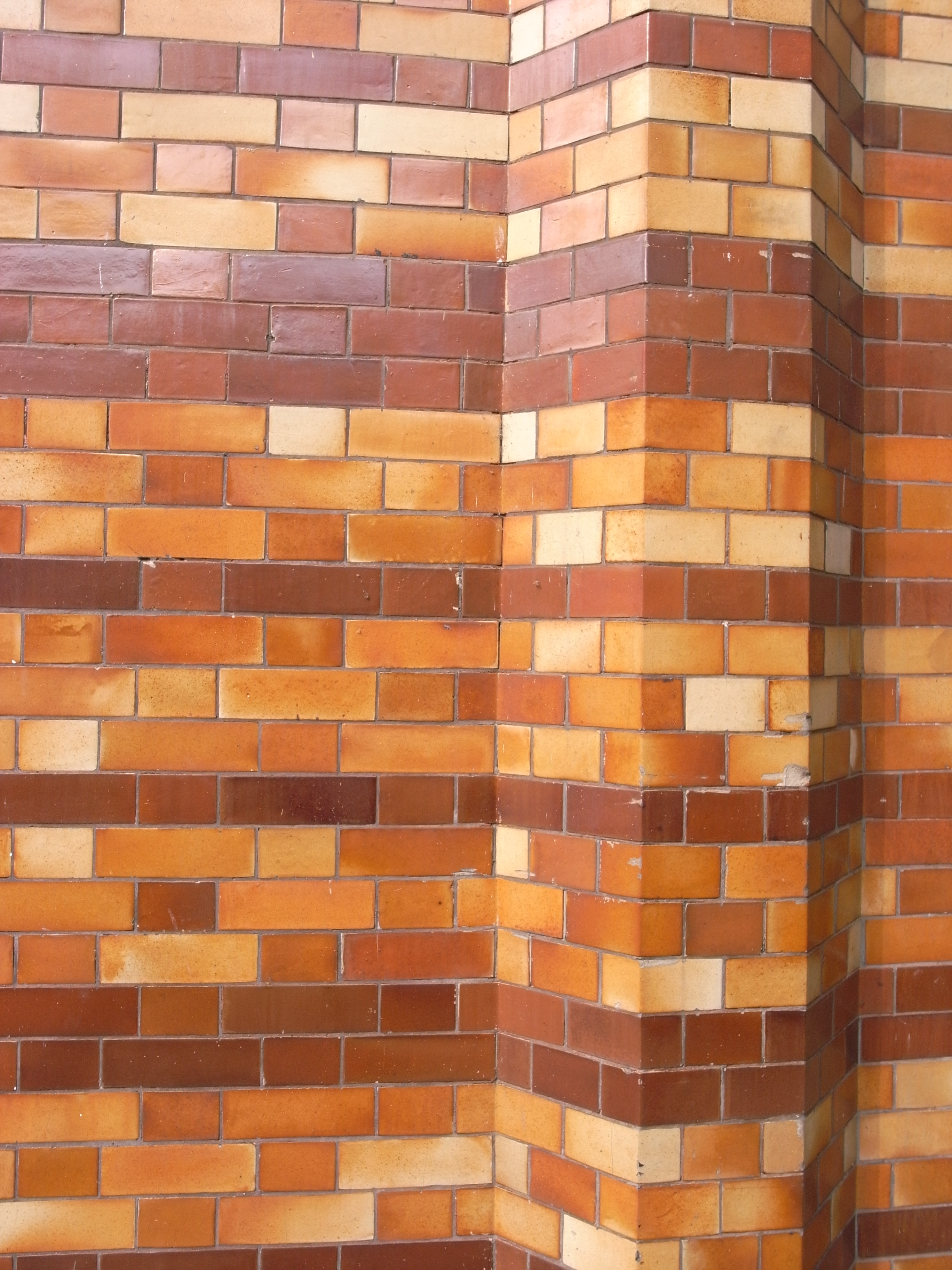 Salt glazed brickwork (flemish bond) in multiple colours on the Grade II listed Castle House, Lady's Bridge, Sheffield, England.